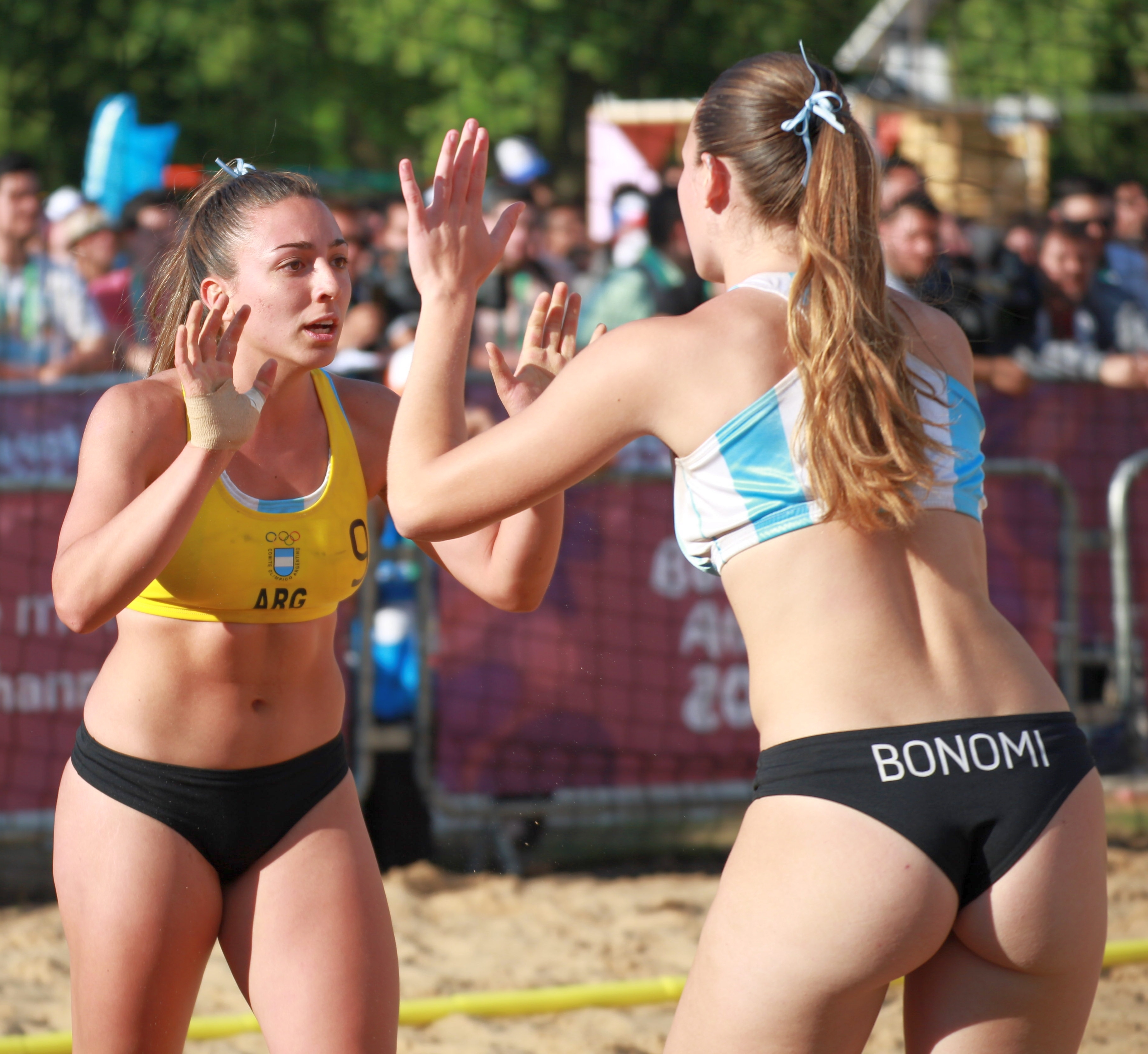 Beach handball at the 2018 Summer Youth Olympics in Buenos Aires at 13 October 2018 – Girls Gold Medal Match – Argentina-Croatia 2:0